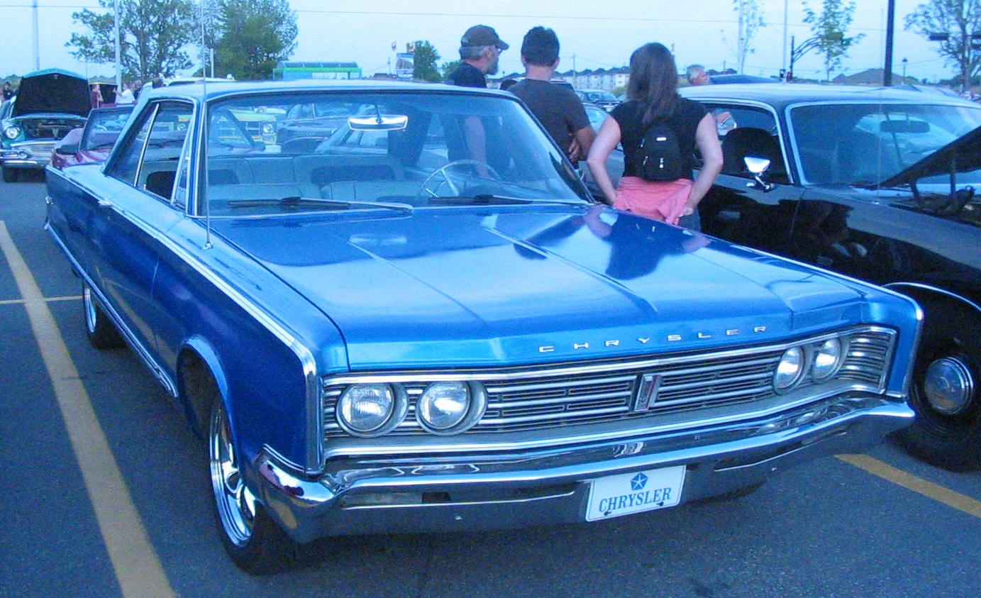 1966 Chrysler Newport photographed in Vaudreuil-Dorion, Quebec, Canada at the Auto classique Bellepros Vaudreuil-Dorion.